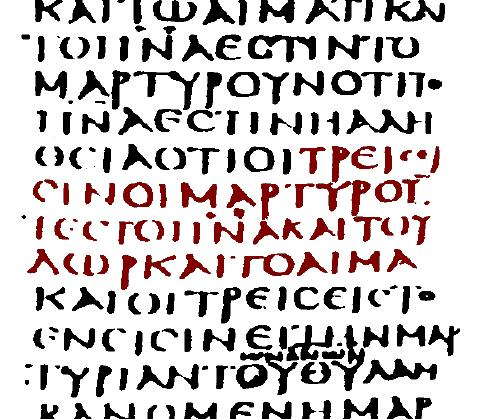 Excerpt from Codex Sinaiticus from the Epistle of John (5:7, 8). It is obvious the missing Comma Johanneum. The purple-coloured text says: "There are three witness bearers, the spirit and the water and the blood".